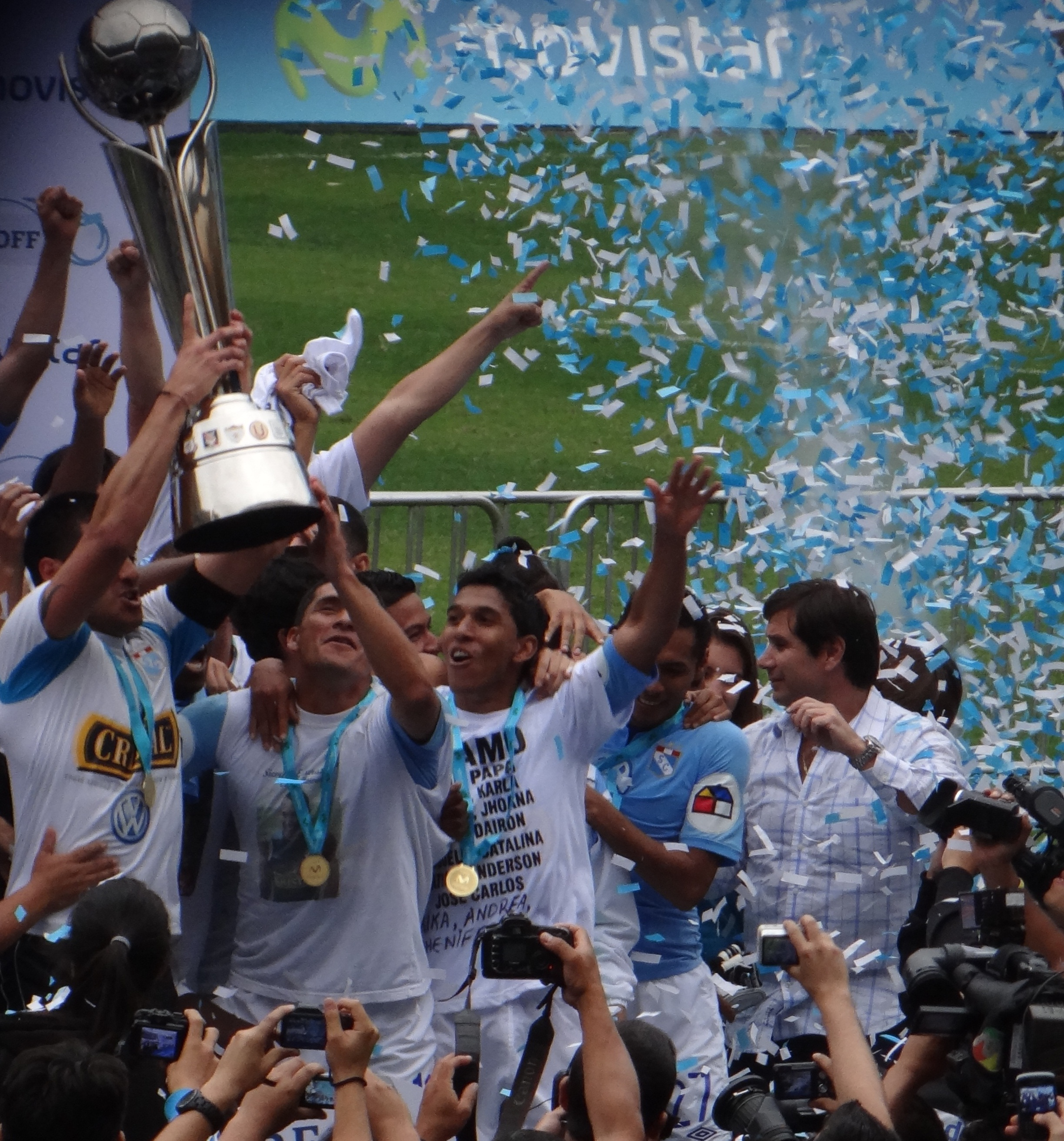 Sporting Cristal footballers with Campeonato Descentralizado trophy